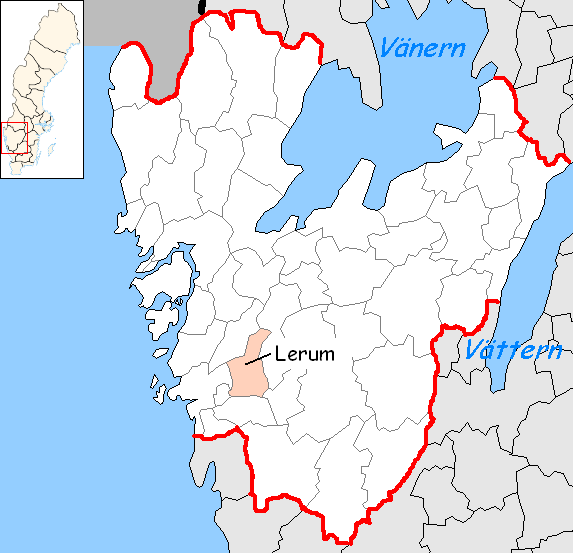 Lerum Municipality in Västra Götaland County Designed by me. Mere outlines are a PD source from